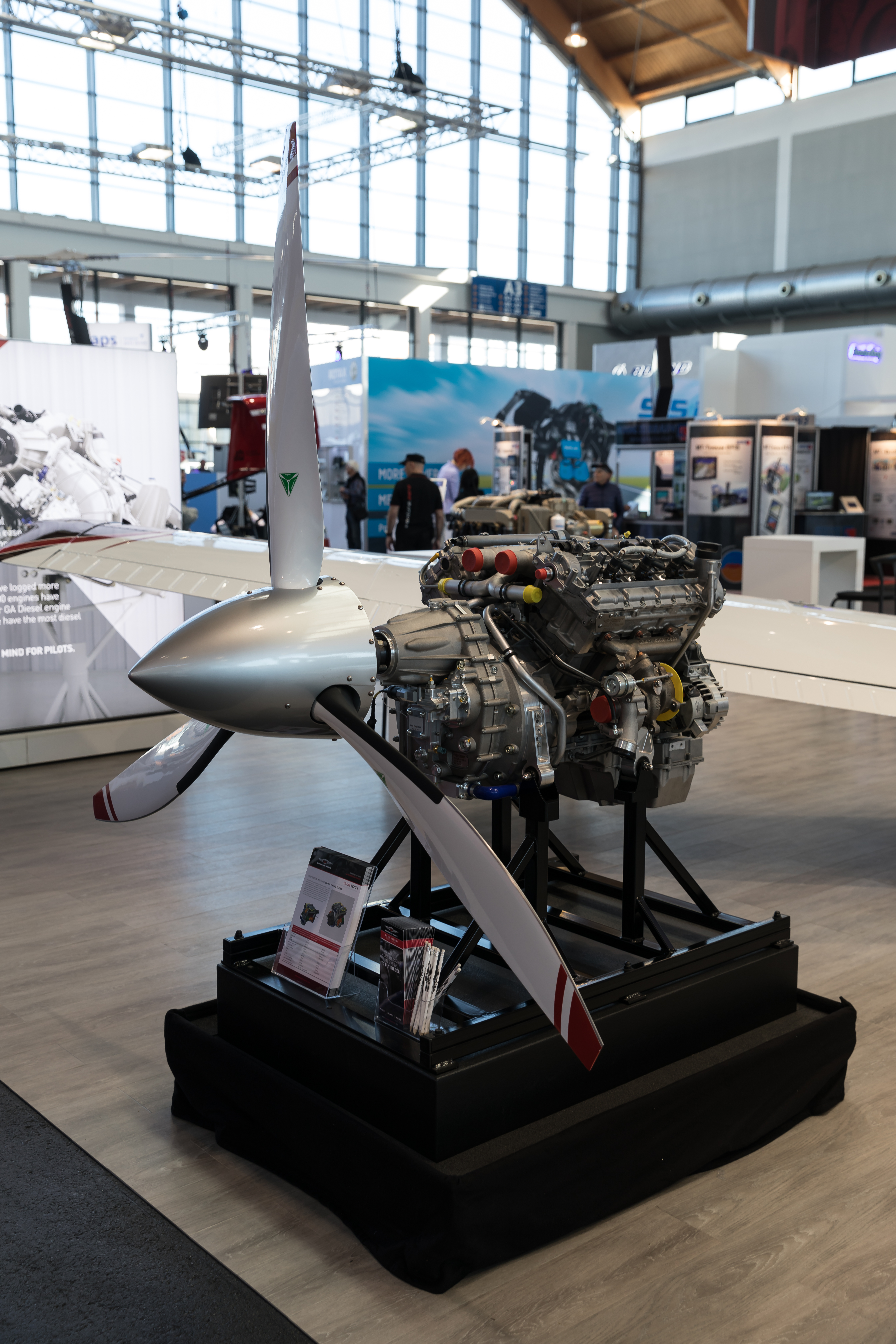 Continental Motors CD300 engine with MT three blade constant speed propeller at AERO Friedrichshafen 2018